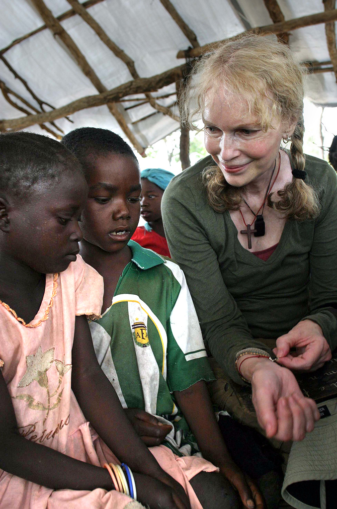 UNICEF Goodwill Ambassador, Ms Mia Farrow, with students during her visit to the bush school of Benah 2, north-western CAR, 19 May 2008